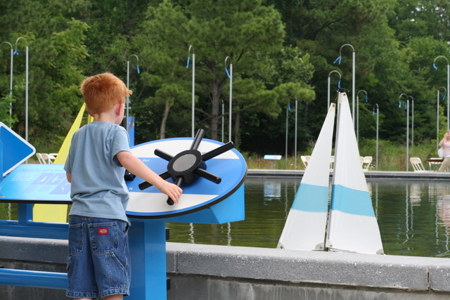 Sailboat pond at the North Carolina Museum of Life and Science, Durham, North Carolina, USA.